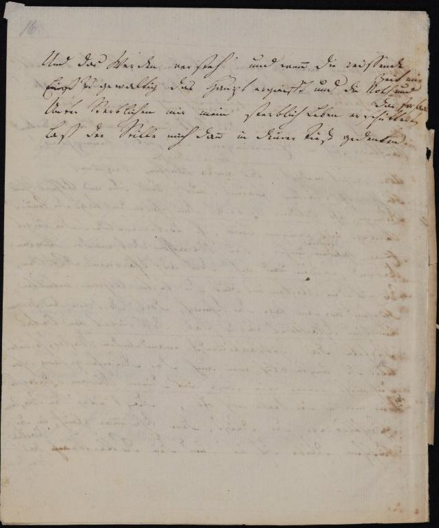 Manuscript of Friedrich Hölderlin: Der Archipelagus, page 16. From Homburg